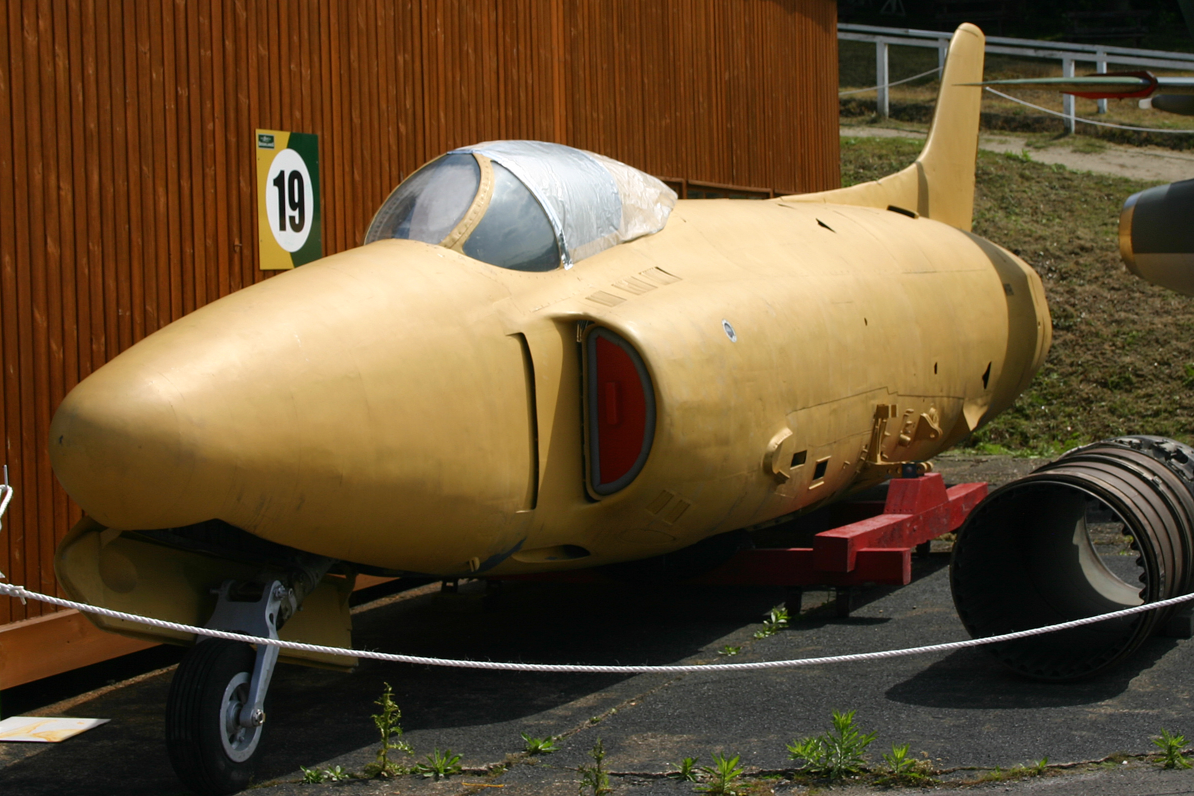 In 1953 Swift WK198 achieved a World Airspeed record of 737.7mph, piloted by Mike Lithgow. This took place in Libya. The fuselage was recovered from a Manchester scrapyard in 1981 and since then it has spent time at NEAM in Sunderland and at the Millom museum, before coming to Brooklands. It remains privately owned. Brooklands Museum. 14-6-2011